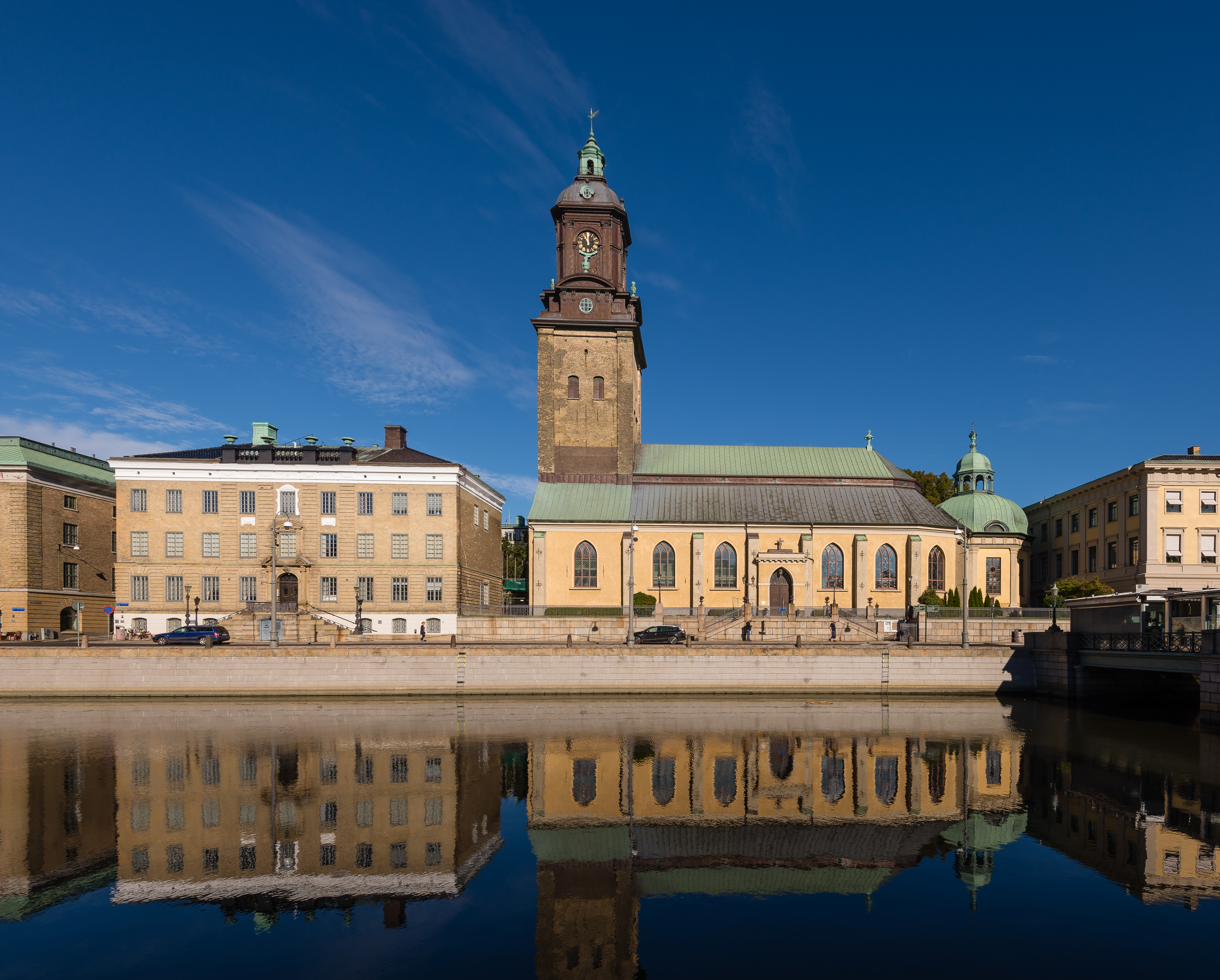 Christinae Church (also know as the German Church). in Gothenburg, Sweden. Left, the Sahlgren building (Sahlgrenska huset).